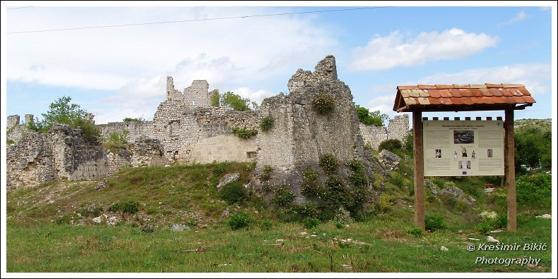 Old city Vran-ruins